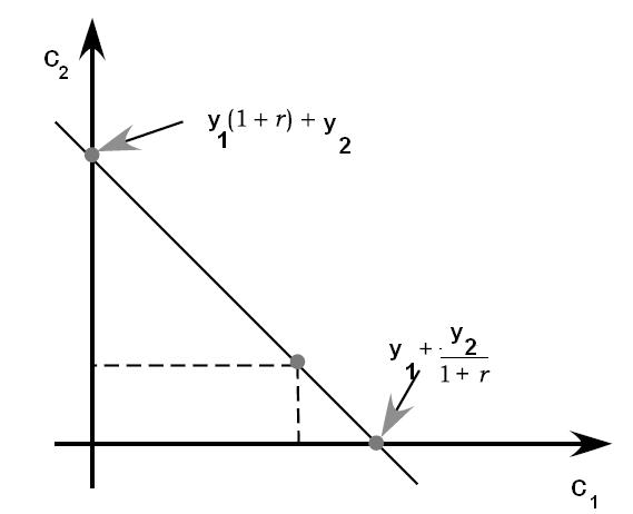 Intertemporal budget constraint with consumption of period 1 and 2 on x-axis and y-axis respectively.